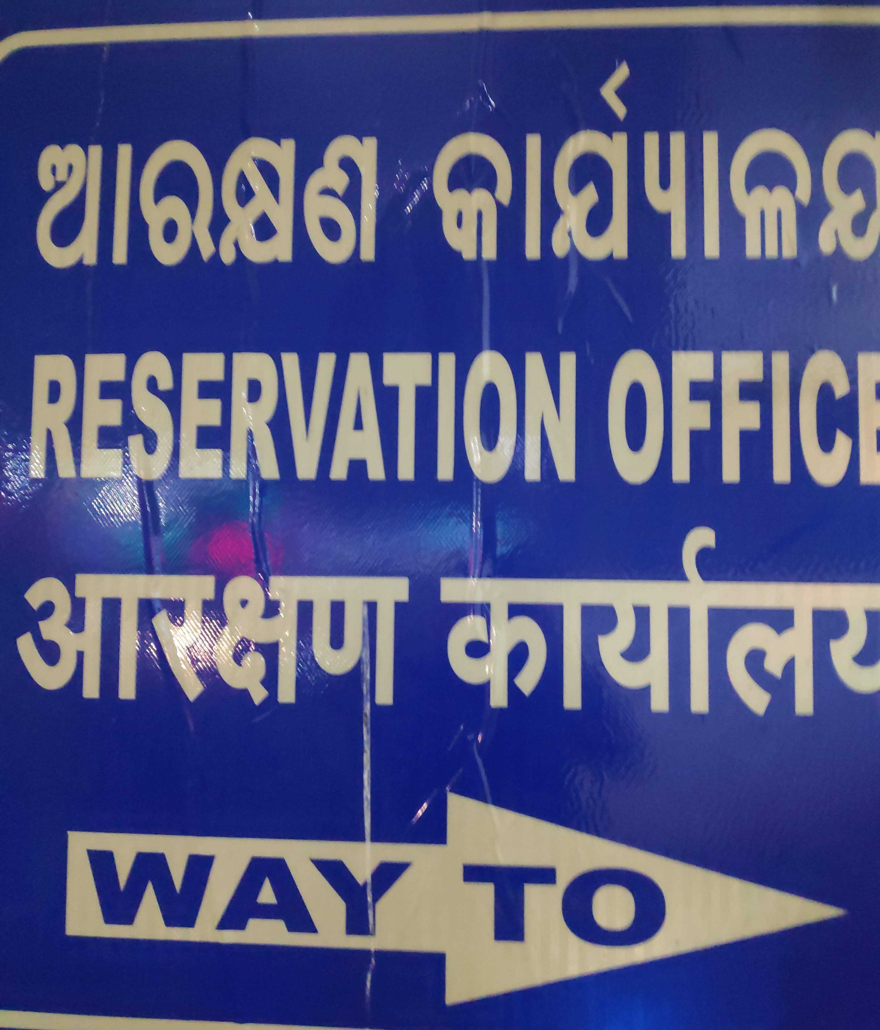 ଓଡ଼ିଆ: Trilingual Signboard in Odia, English, Hindi leading to Reservation Office